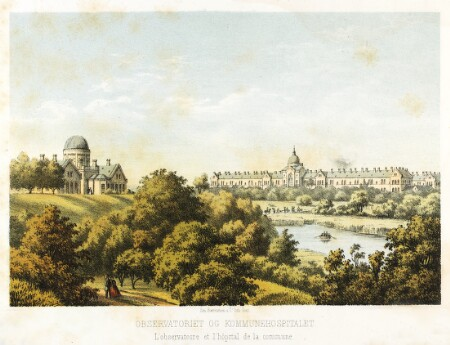 Østervold Observatory and Copenhagen Municipal Hospital some time after they were built in the 1860s in Copenhagen, Denmark.